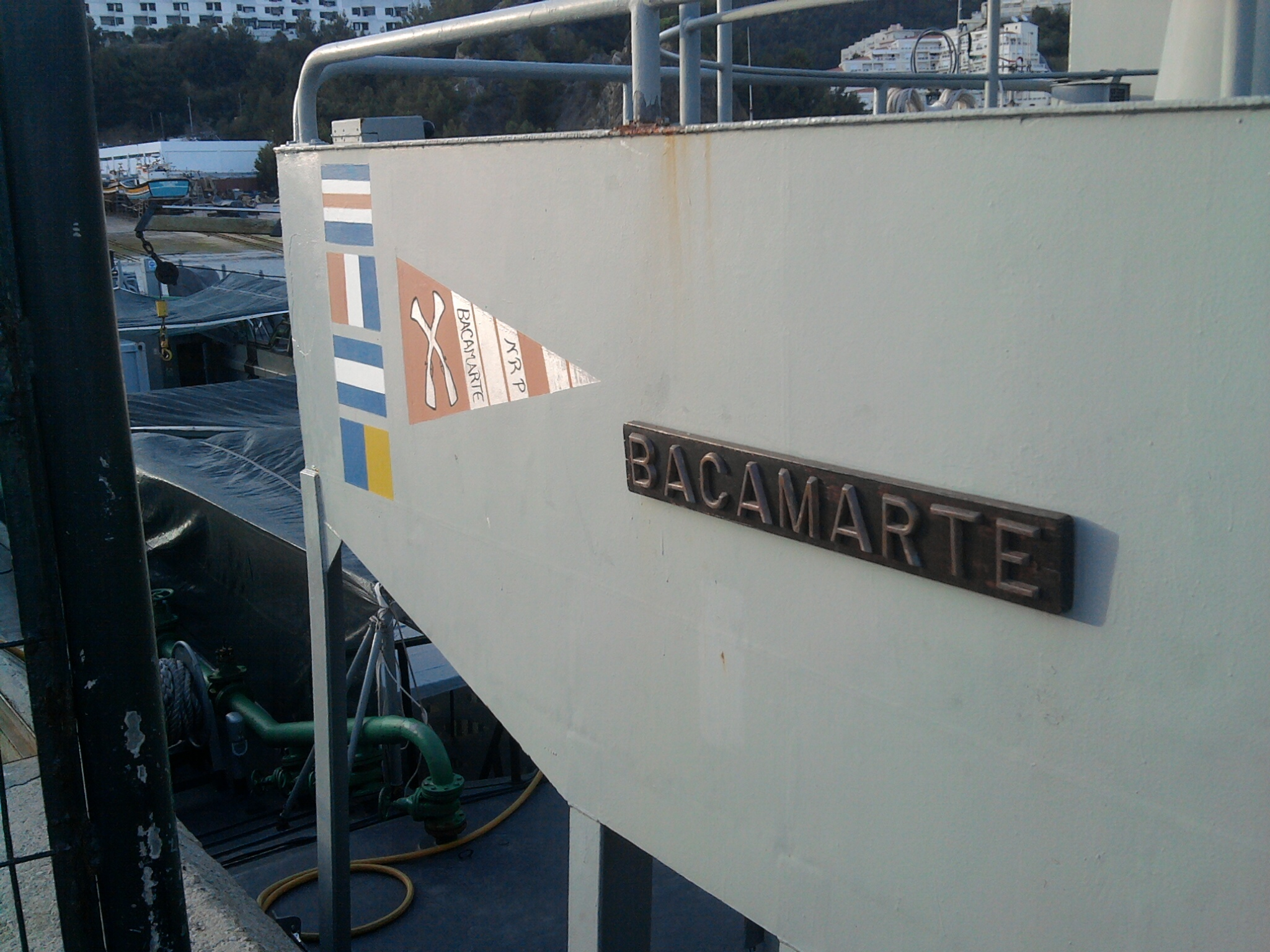 Heraldic pennant of the landing craft NRP Bacamarte